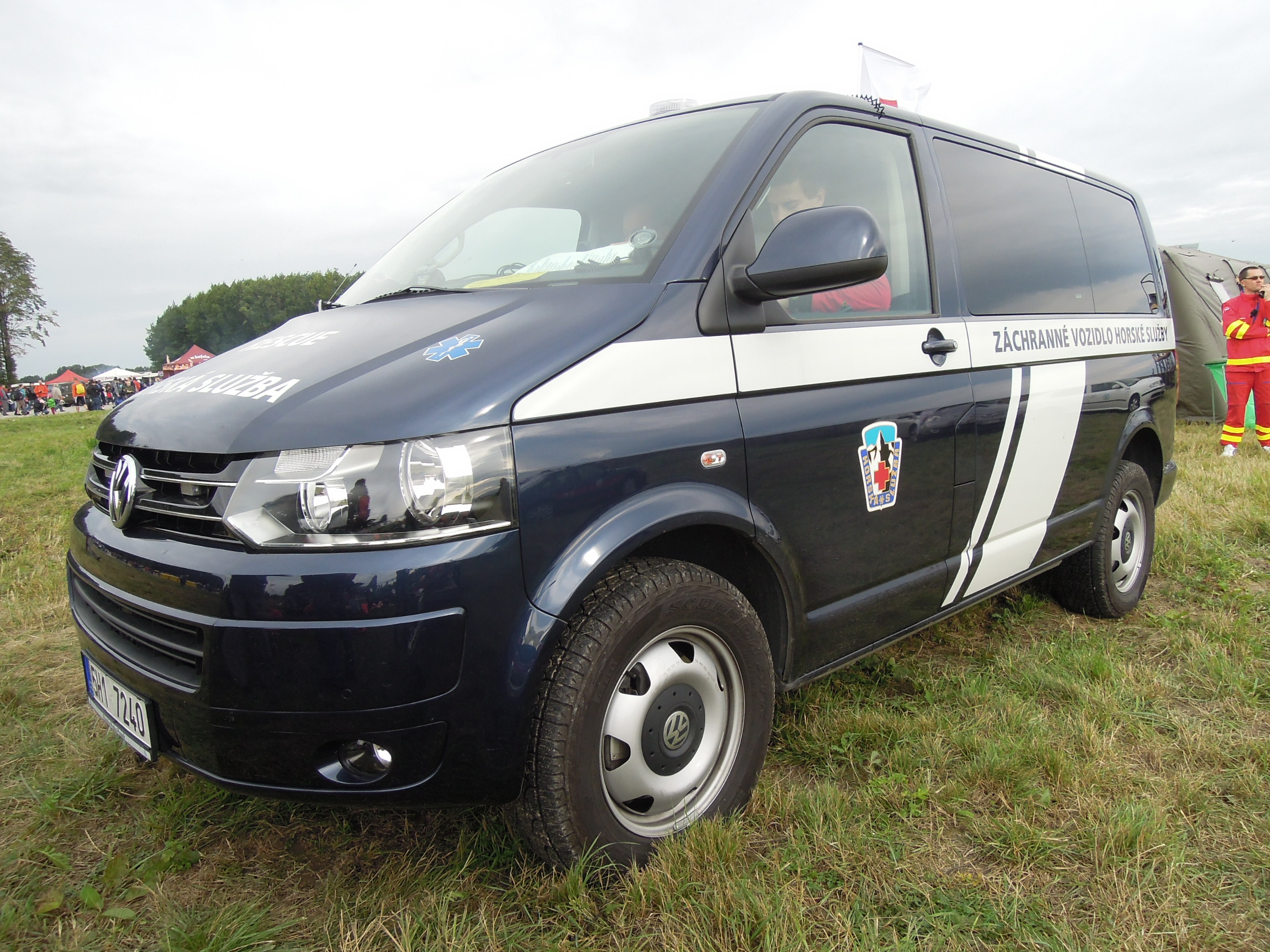 Volkswagen Transporter T5 rescue vehicle of Mountain rescue in the Czech Republic